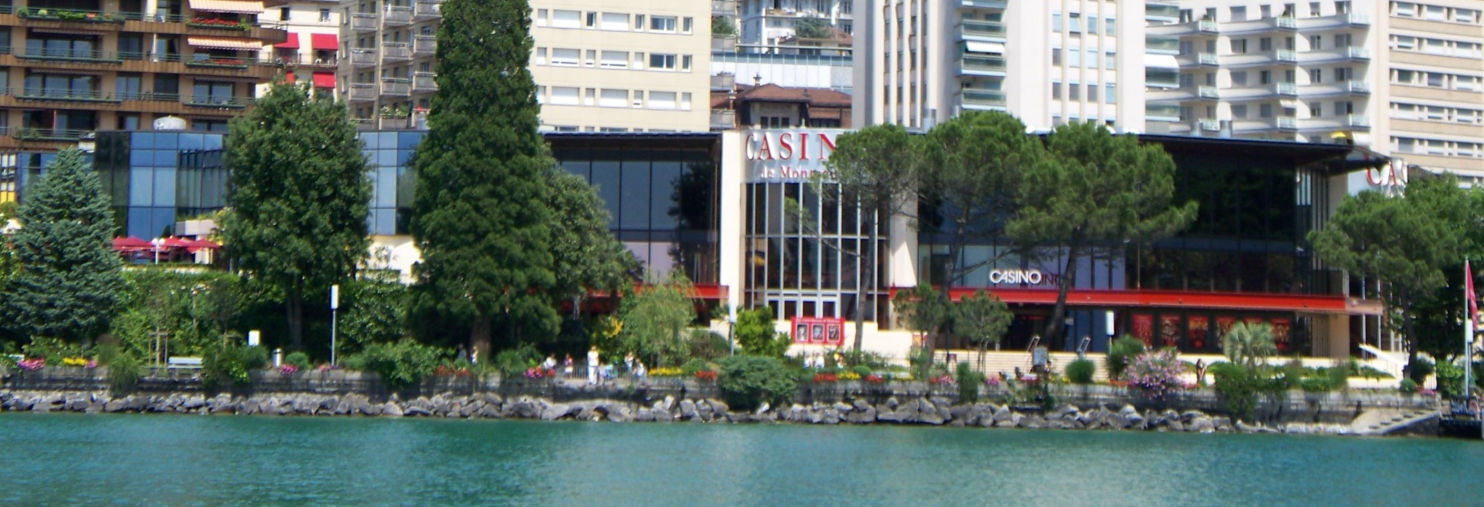 Closeup of the Montreux Casino. Photo taken from a boat on Lake Geneva.